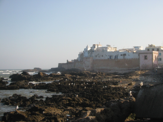 The ramparts of Essaouira (personal photograph).